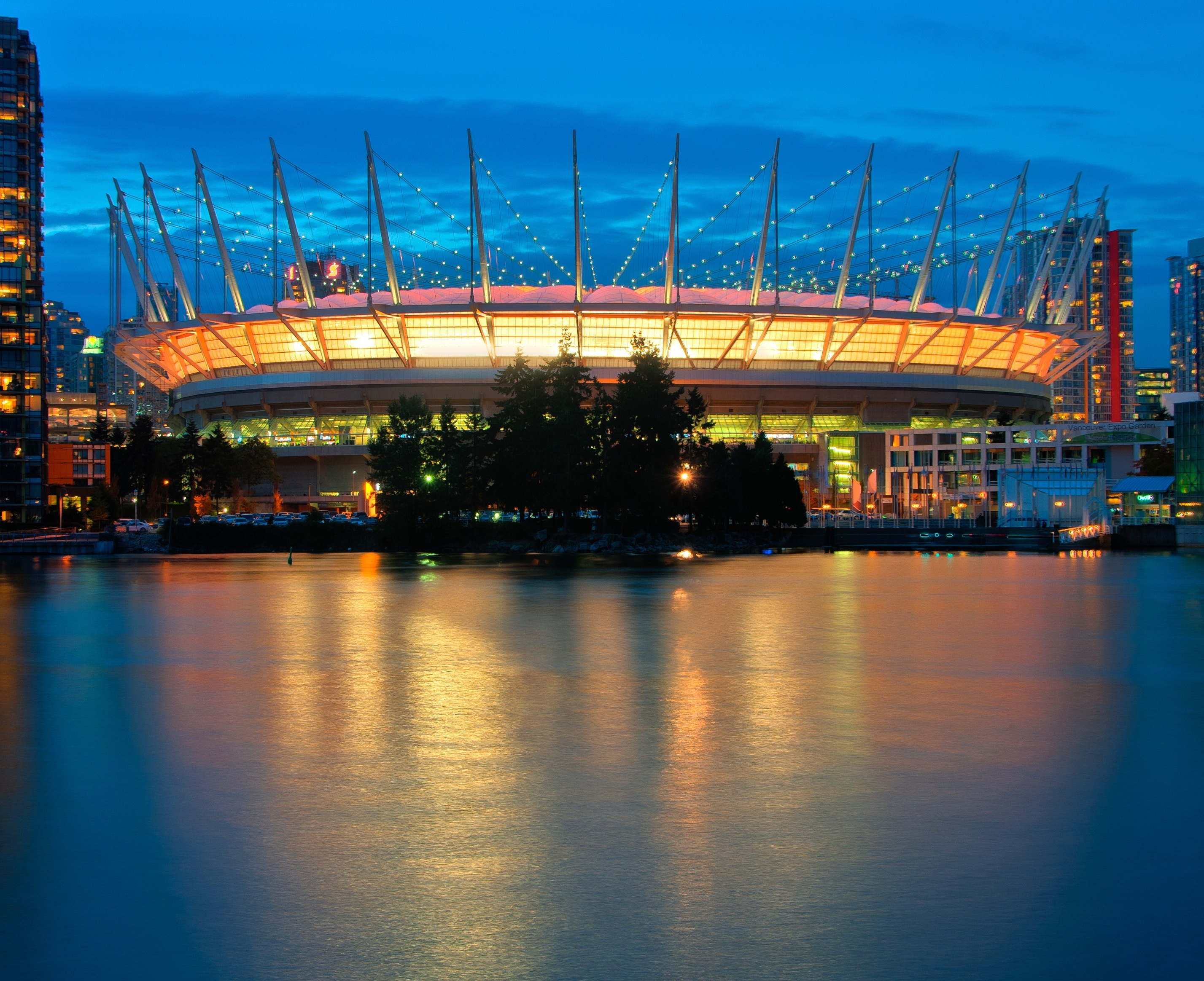 BC Place Stadium with new roof opens to the public 2011-09-30